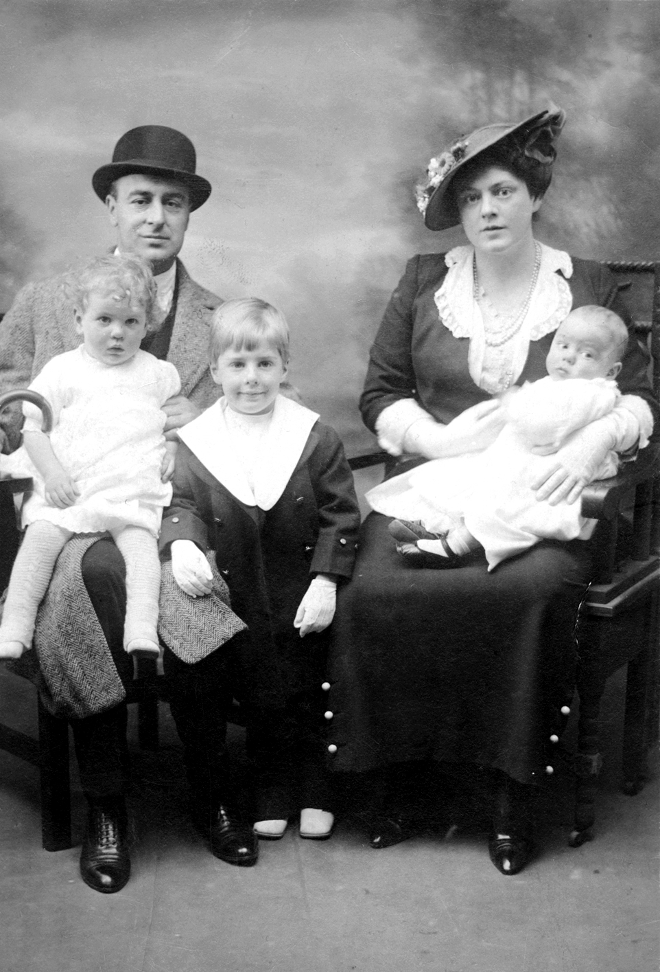 Ethel Barrymore (1879-1959) and Russell Griswold Colt (1882-1959) with their children: Ethel Barrymore Colt (1912-1977), Samuel Colt (1909-1986)., and John Drew Colt (1913-1975). This photo was owned by my great-grandmother who emigrated from Sweden in 1913, and who was a servant for the Barrymore family. My great-grandfather's sister (who emigrated from Sweden in 1903) also worked for the Barrymores and died while in their employ between 1918 and 1920 (when she was approx. age 26-28), in Atlantic City. I don't know how she died.